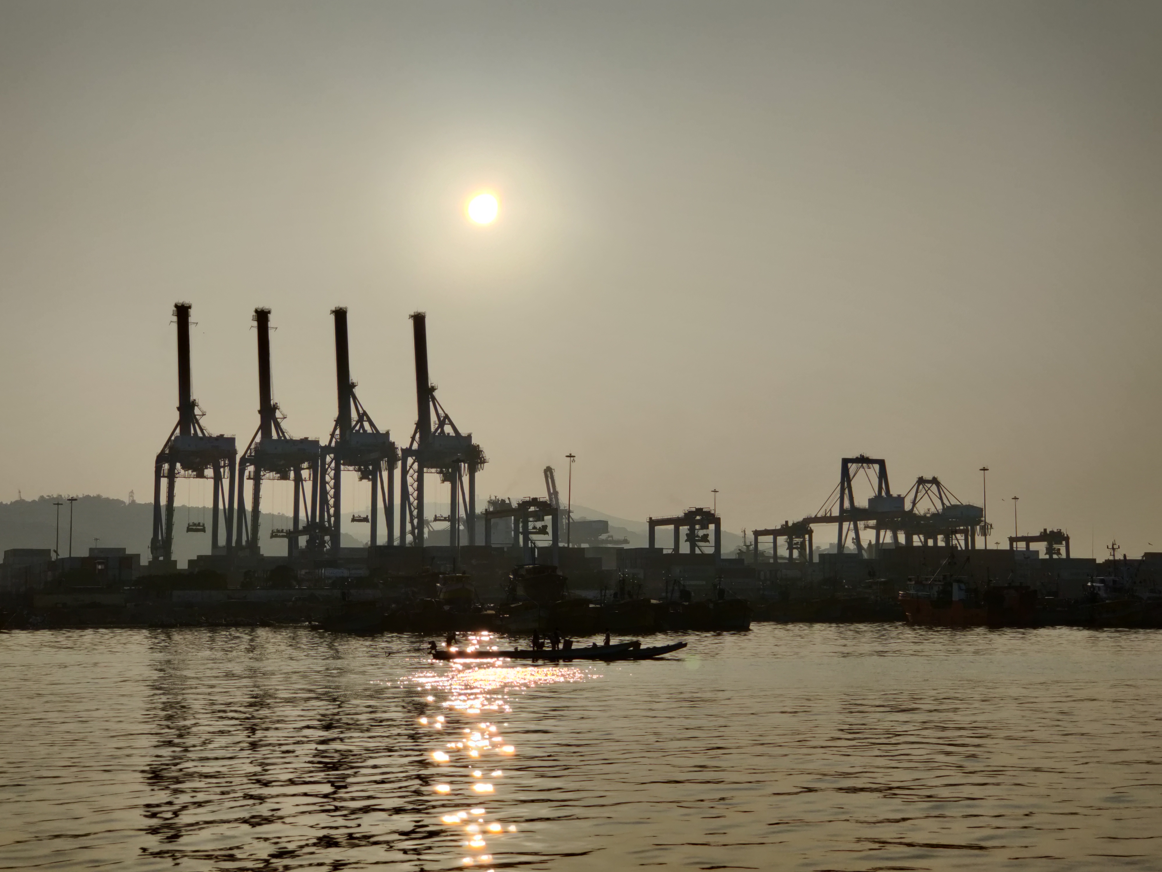 Visakhapatnam seaport from the Fishing harbour